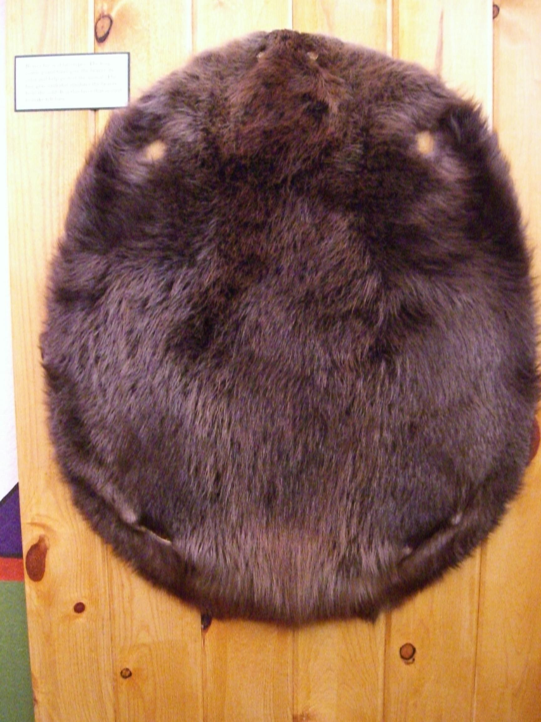 Beaver Pelt, Museum of the Fur Trade, Chadron, Nebraska, USA